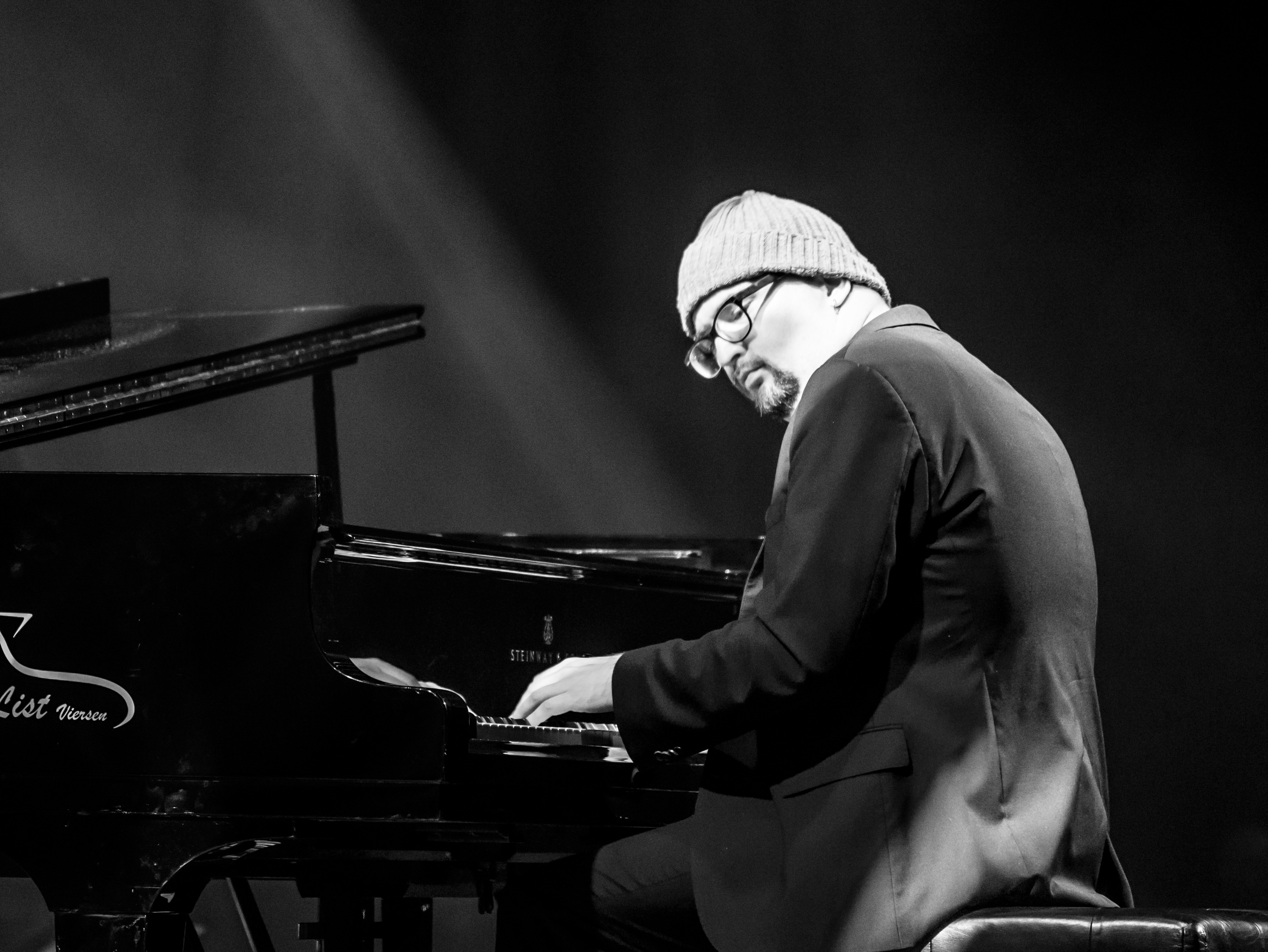 US-american jazz musician Ethan Iverson at the Moers Festival 2017